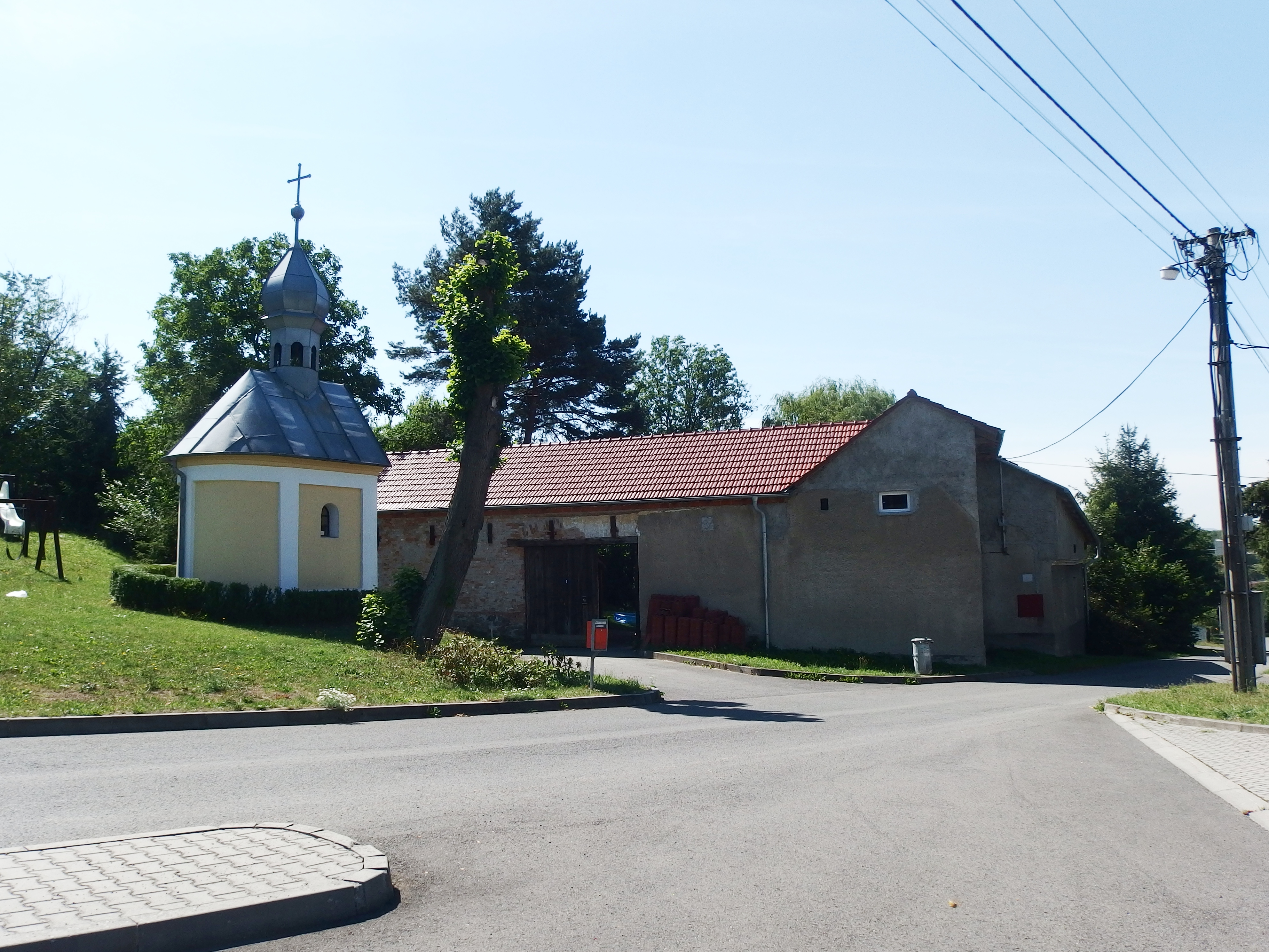 Bělotín, Přerov District, Czech Republic, part Lučice.